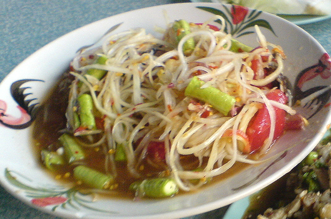 Som Tam, a Thai cuisine